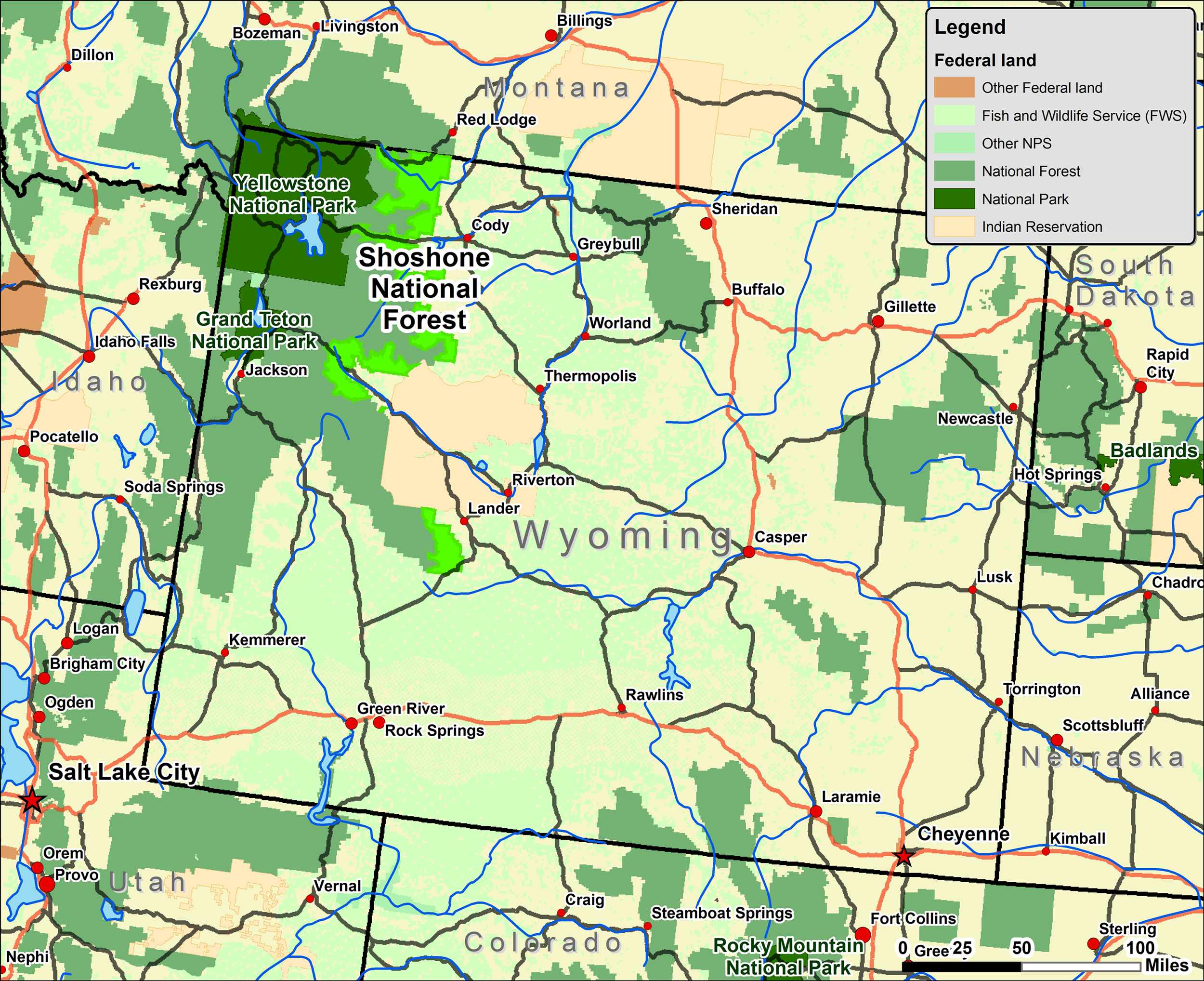 Map of Wyoming showing the location of Shoshone National Forest. Created by Kmf164 using ArcGIS and public domain, U.S. government GIS data sources.